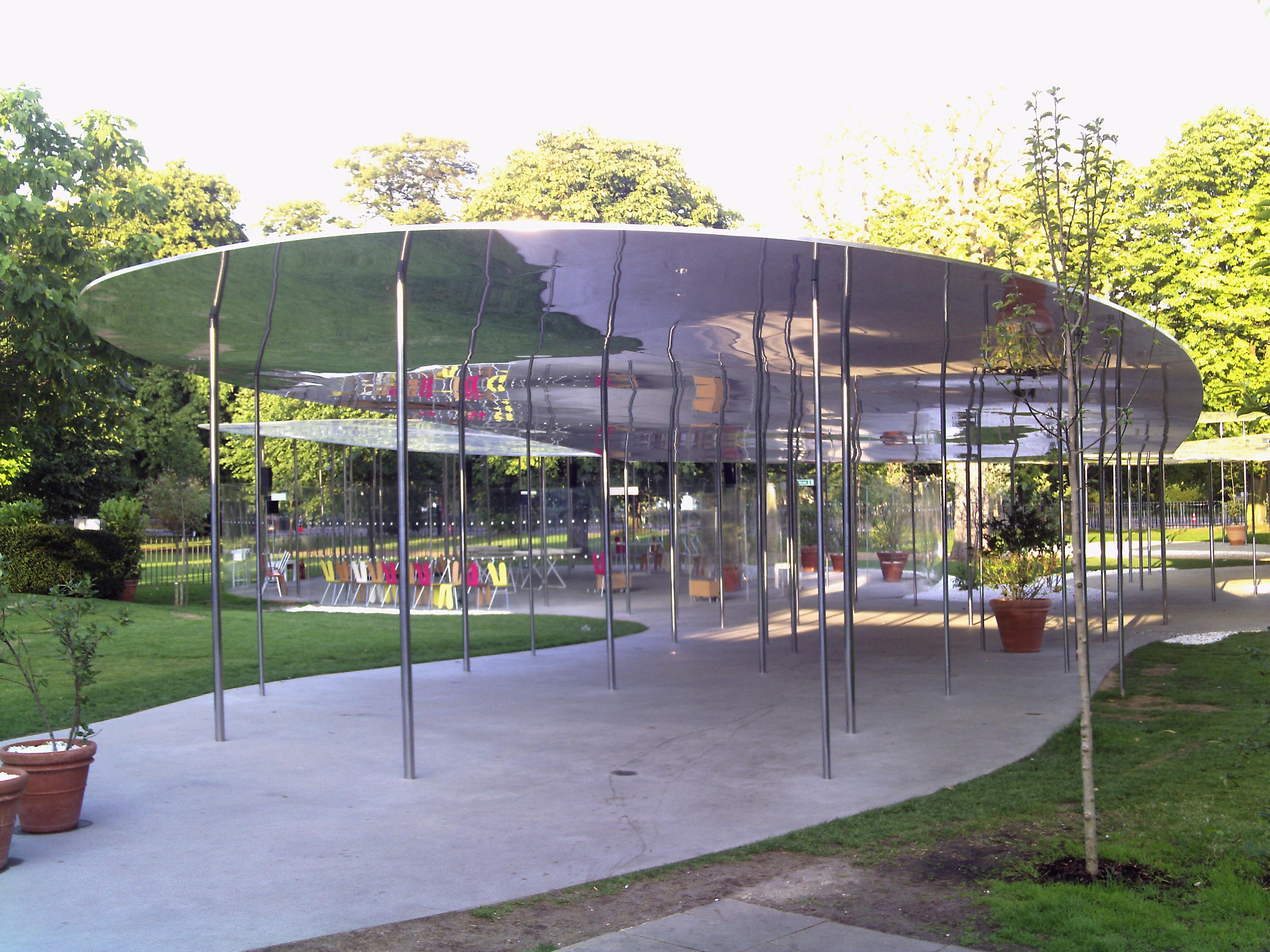 The 2009 Summer Pavilion at the Serpentine Gallery in Kensington Gardens. The pavilion is designed by Kazuyo Sejima and Ryue Nishizawa of the architecture firm SANAA.